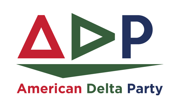 american delta party logo